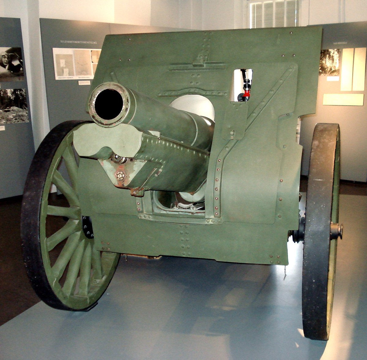 Soviet 122 mm howitzer Model 1910-1930, displayed in Hämeenlinna Artillery Museum. This particular gun was manufactured in Perm in 1926. The Model 1910 howitzer was based on a French Schneider design. They were produced in Imperial Russia and then in the Soviet Union. As was typical for most World War I artillery pieces, the gun was modernised from 1930 onwards, the resulting guns called Model 10-30. One part of the modernization consisted of the addition of a muzzle brake, which is missing on this particular gun. Photo taken on June 18, 2006. Source: Photo by me, User:Balcer.